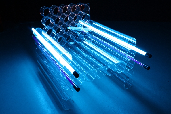 'Interlux-chair', artwork by Manfred Kielnhofer, Linz, Austria. Shown at the Lightart Biennale Austria 2010